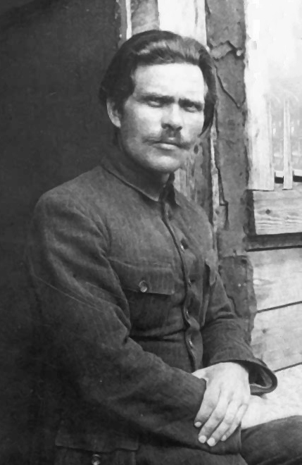 Nestor Ivanovich Makhno (1888-1934)